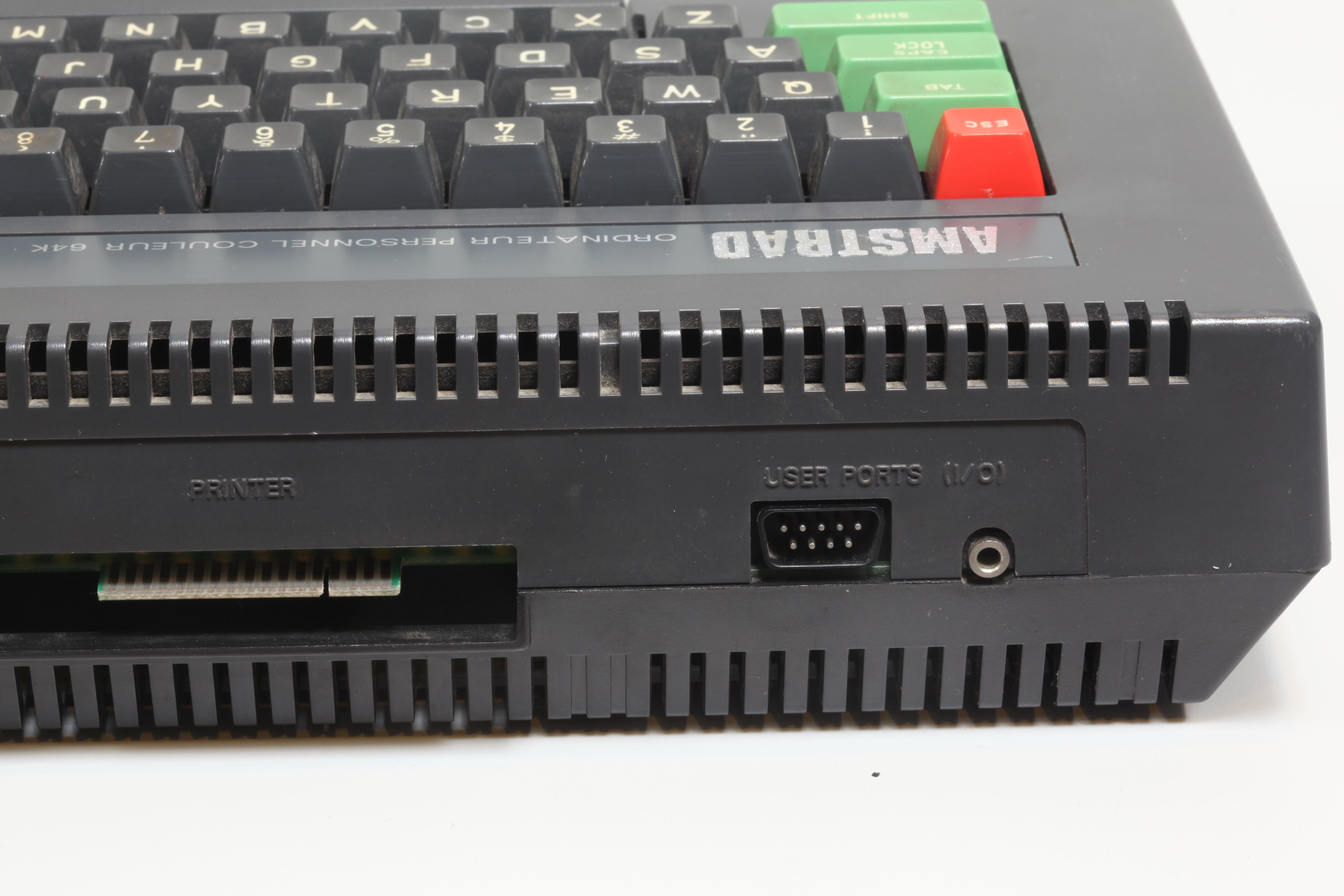 Amstrad CPC 464 computer. On display at the Musée Bolo, EPFL, Lausanne.